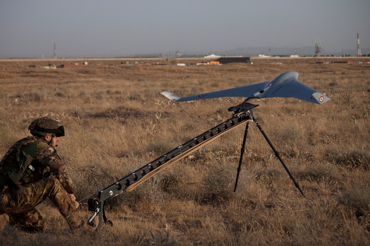 Italian Army 41st Regiment "Cordenons" operator launching a Bramor C4EYE drone